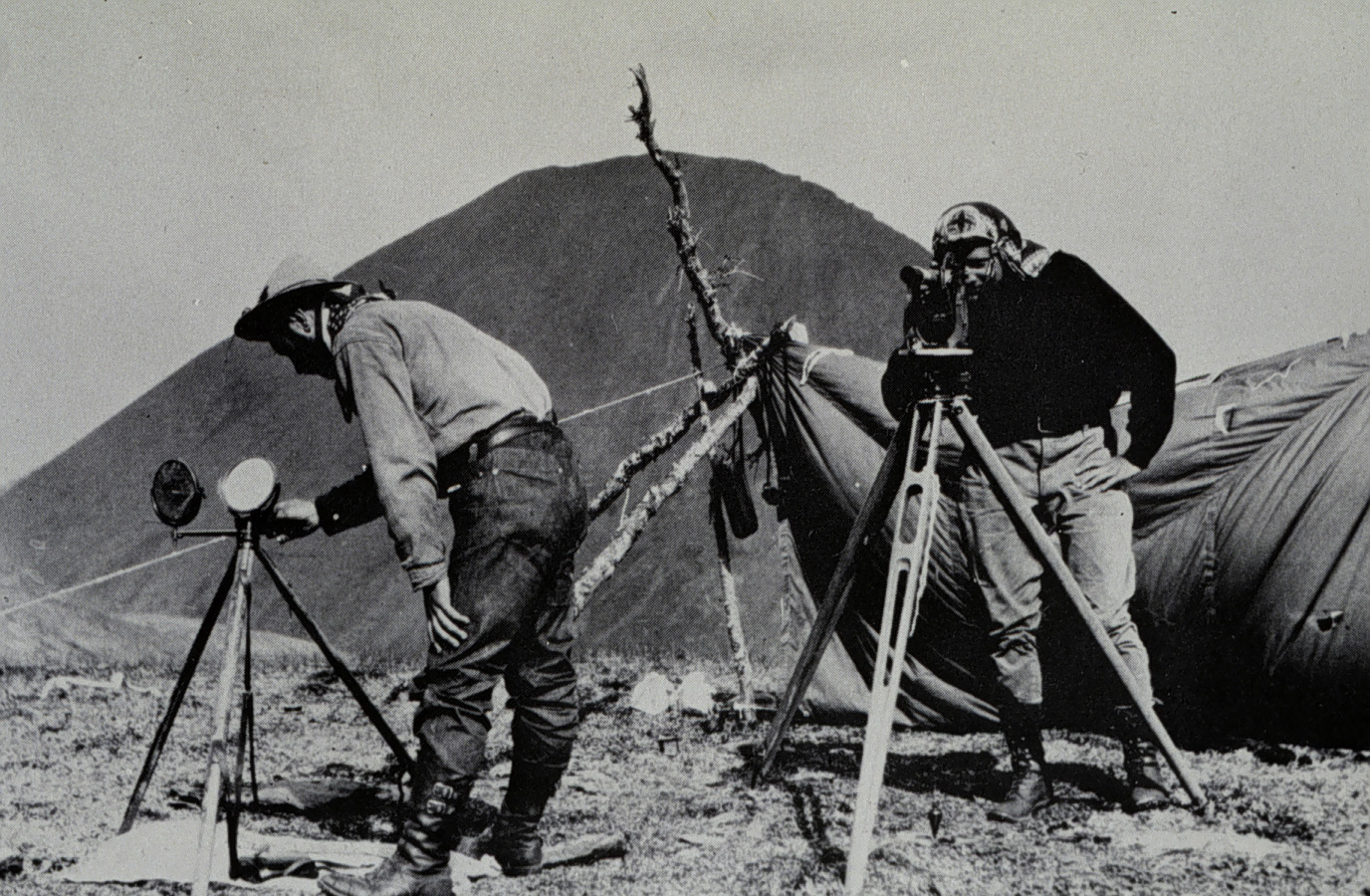 heliograph - Signaling with heliograph near Monument 92. Alaska - Canada border. International Boundary Commission